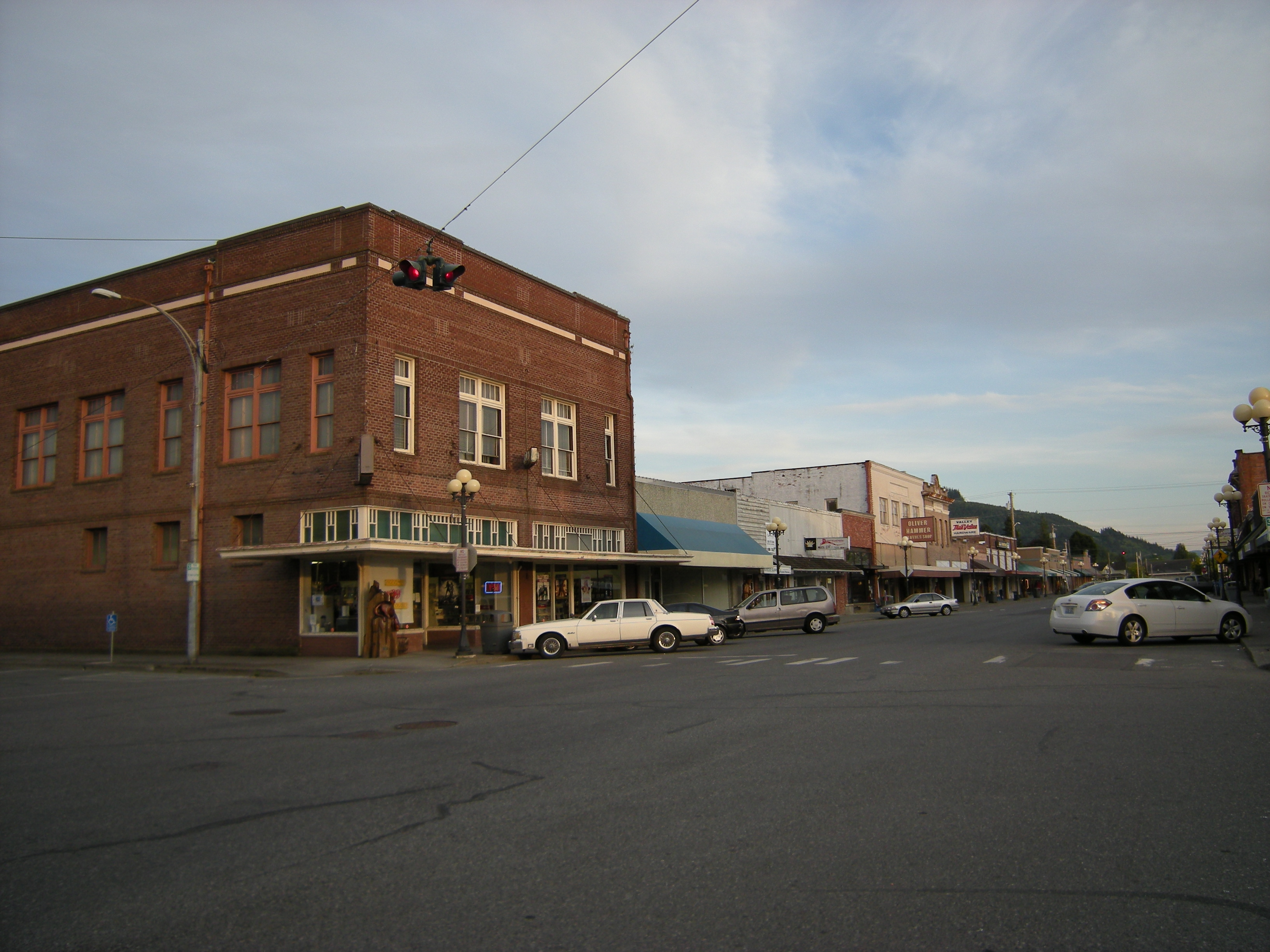 Buildings on Metcalf Street, Sedro-Woolley, Washington, USA.